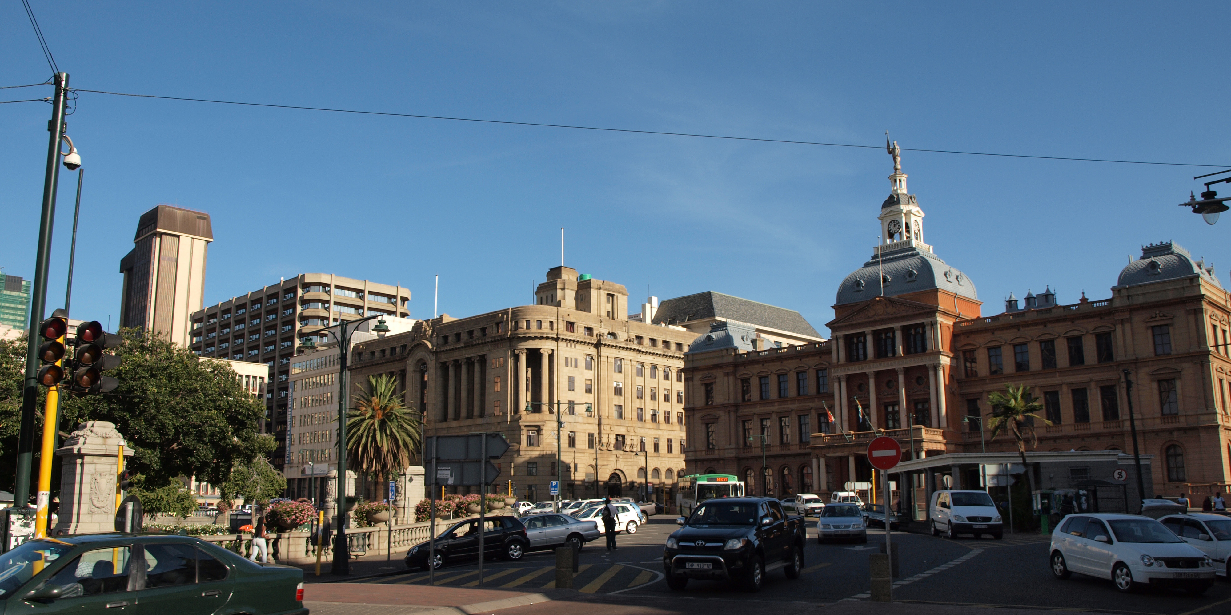 South Arica Republic, Pretoria. Church Square, Pretoria.